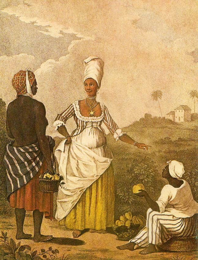 (after painting, circa 1764)